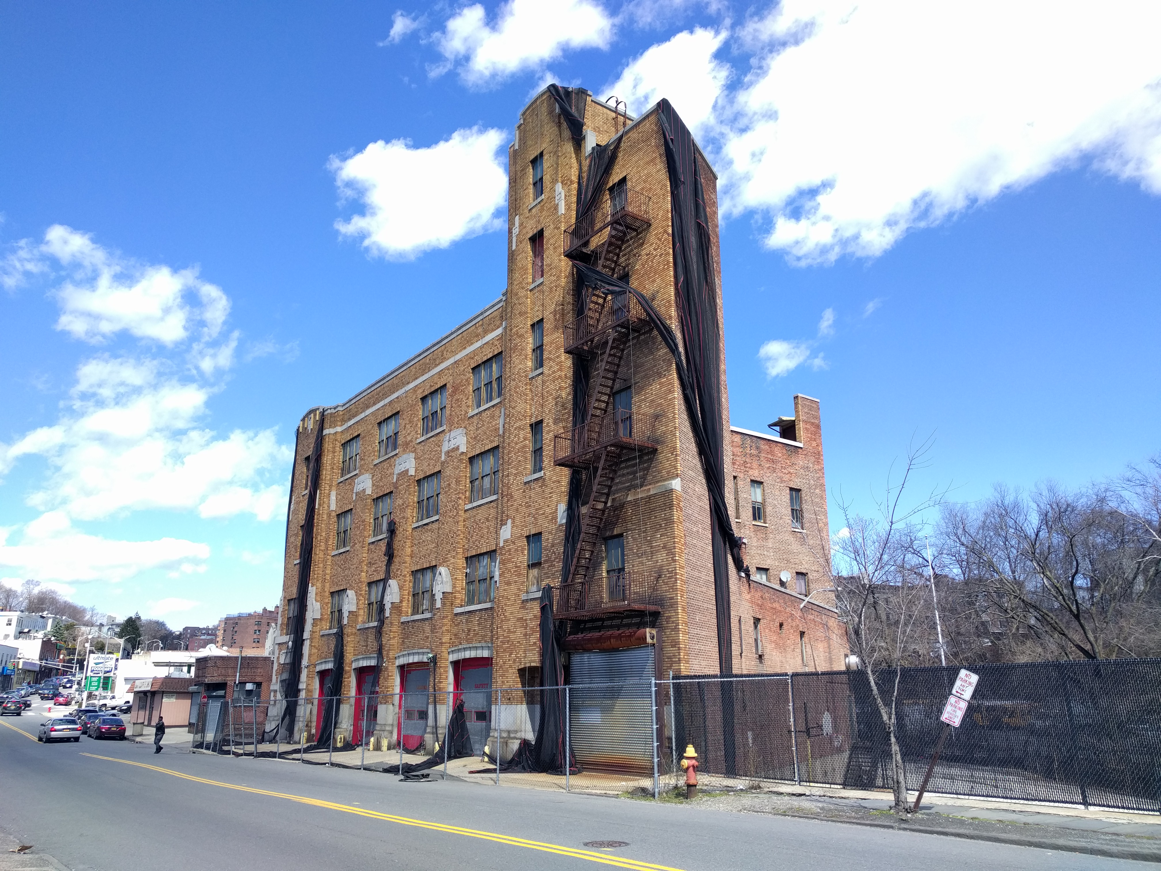 looking north on New School Street on a sunny midday